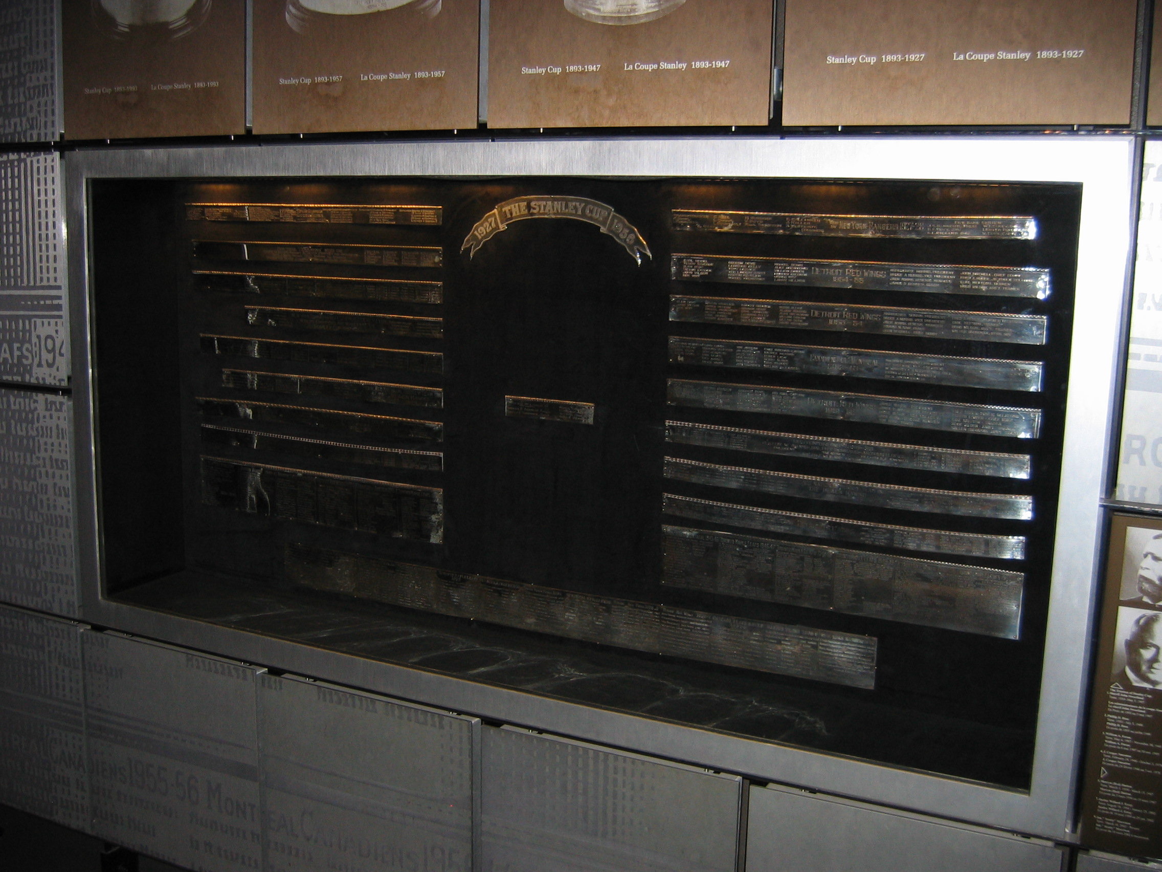 Rings from the Stanley Cup in the bank vault